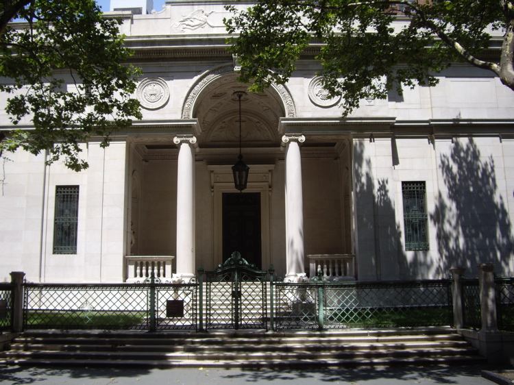 Morgan Libray, Manhattan, New York City, NY